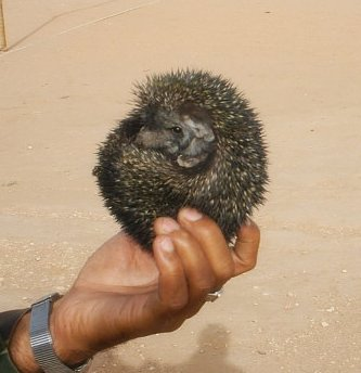 This photo of a Hedgehog was taken in Jaisalmer district, Rajasthan on 18 Apr 06. The hedgehog was found wandering in the desert at 2200hrs. He was kept in a pot till morning, photos taken and released unharmed deep in the desert away from habitation.. Identification is required - E collaris or micropus? There are total three photos of the same hedgehog in Wikimedia: File:AB001 Hedgehog from Rajasthan.jpg File:AB002 Hedgehog from Rajasthan.jpg File:AB003 Hedgehog from Rajasthan.jpg